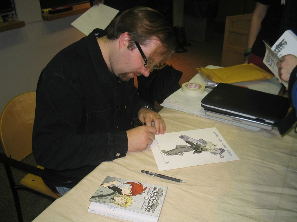 Fred "Piro" Gallagher, creator of the Megatokyo webcomic signing illustrations after a lecture at MIT.